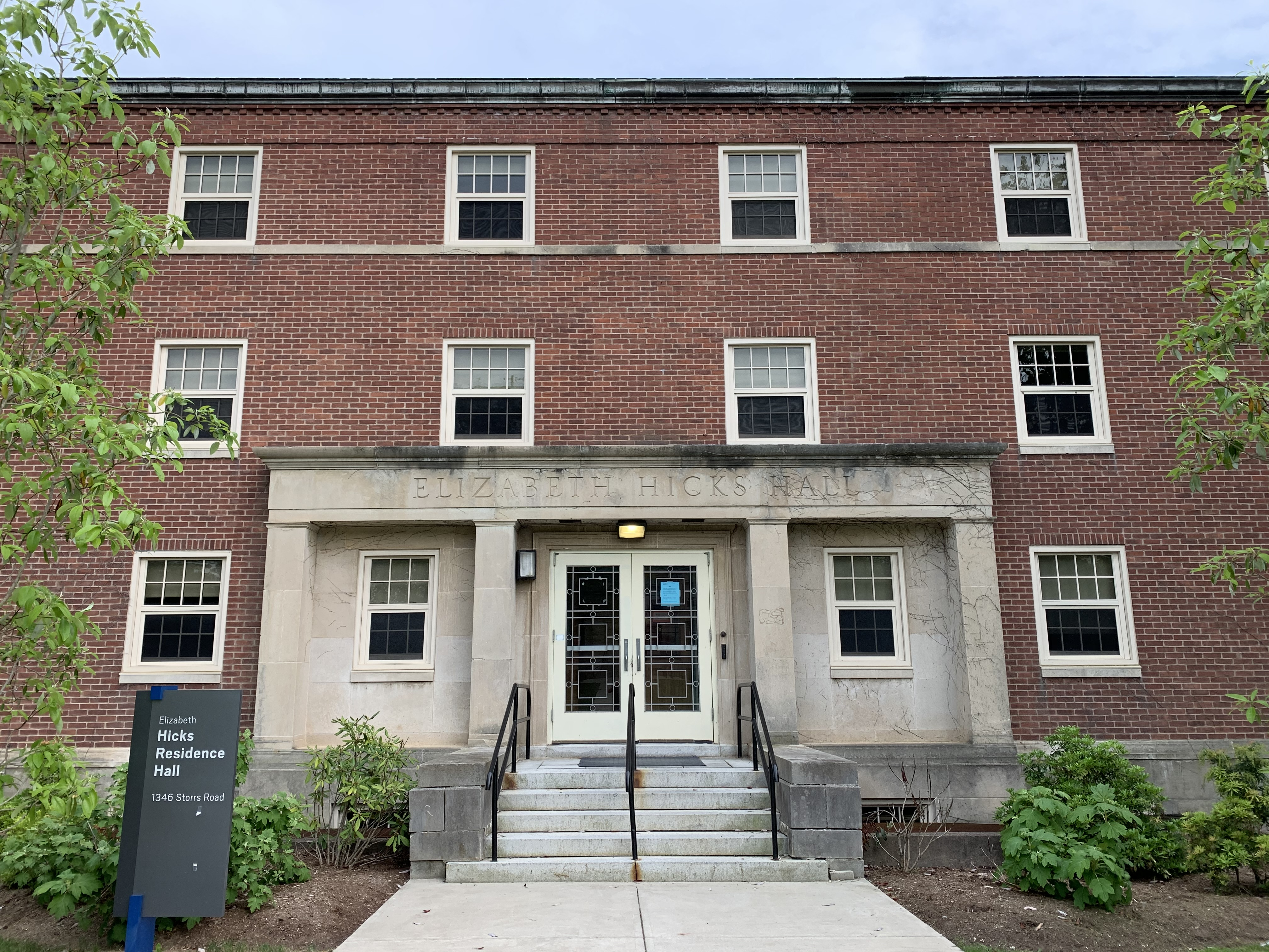 Entrance of Elizabeth Hicks Residence Hall, a women's dormitory built in 1951 on the Storrs campus of the University of Connecticut